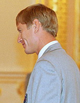 THE KREMLIN, MOSCOW. Meeting with members of the Russian team at the Sydney Olympics. Olympic tennis champion Yevgeny Kafelnikov presented Vladimir Putin with a tennis racket as a souvenir.